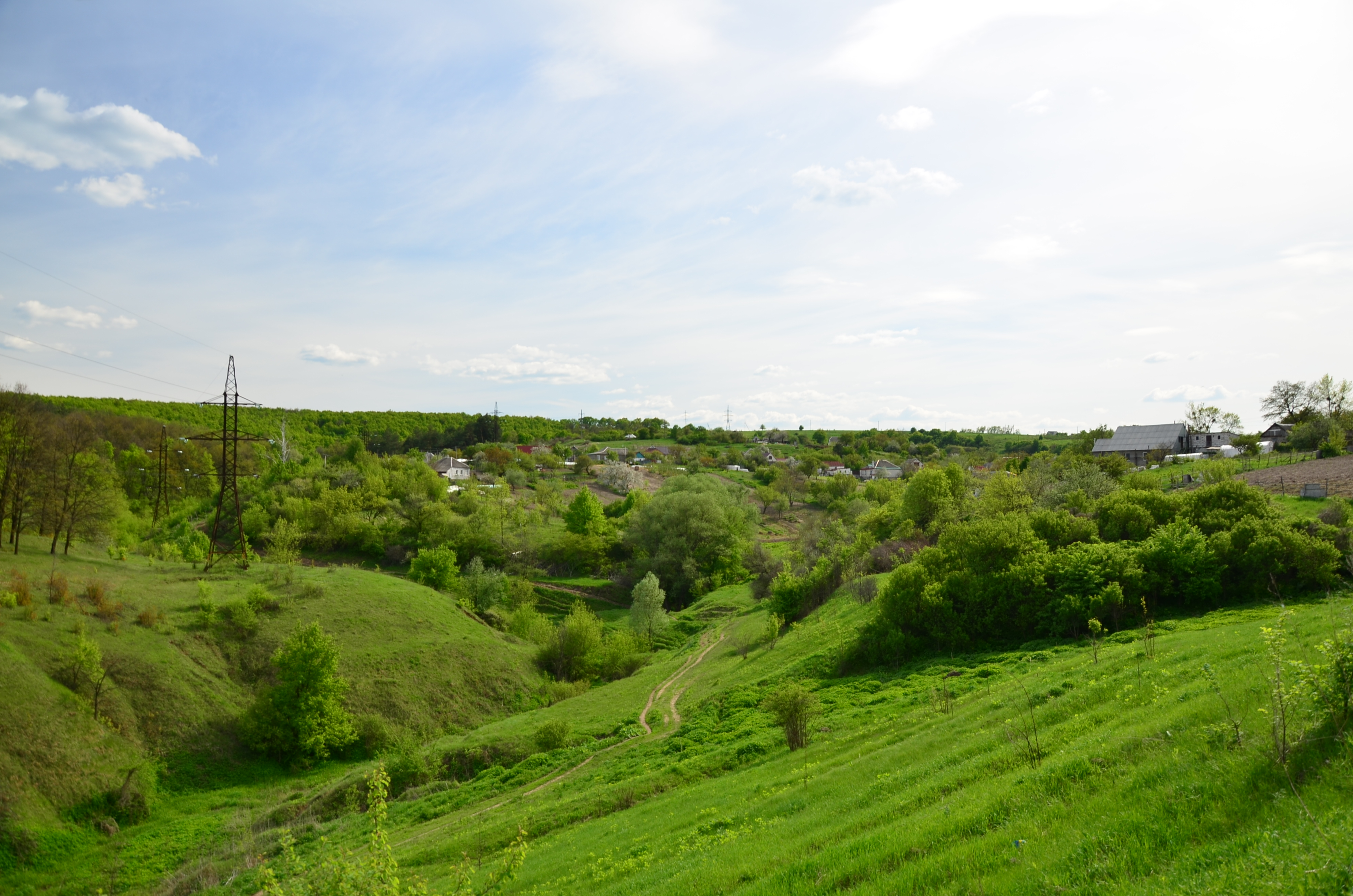 Balka near Borova